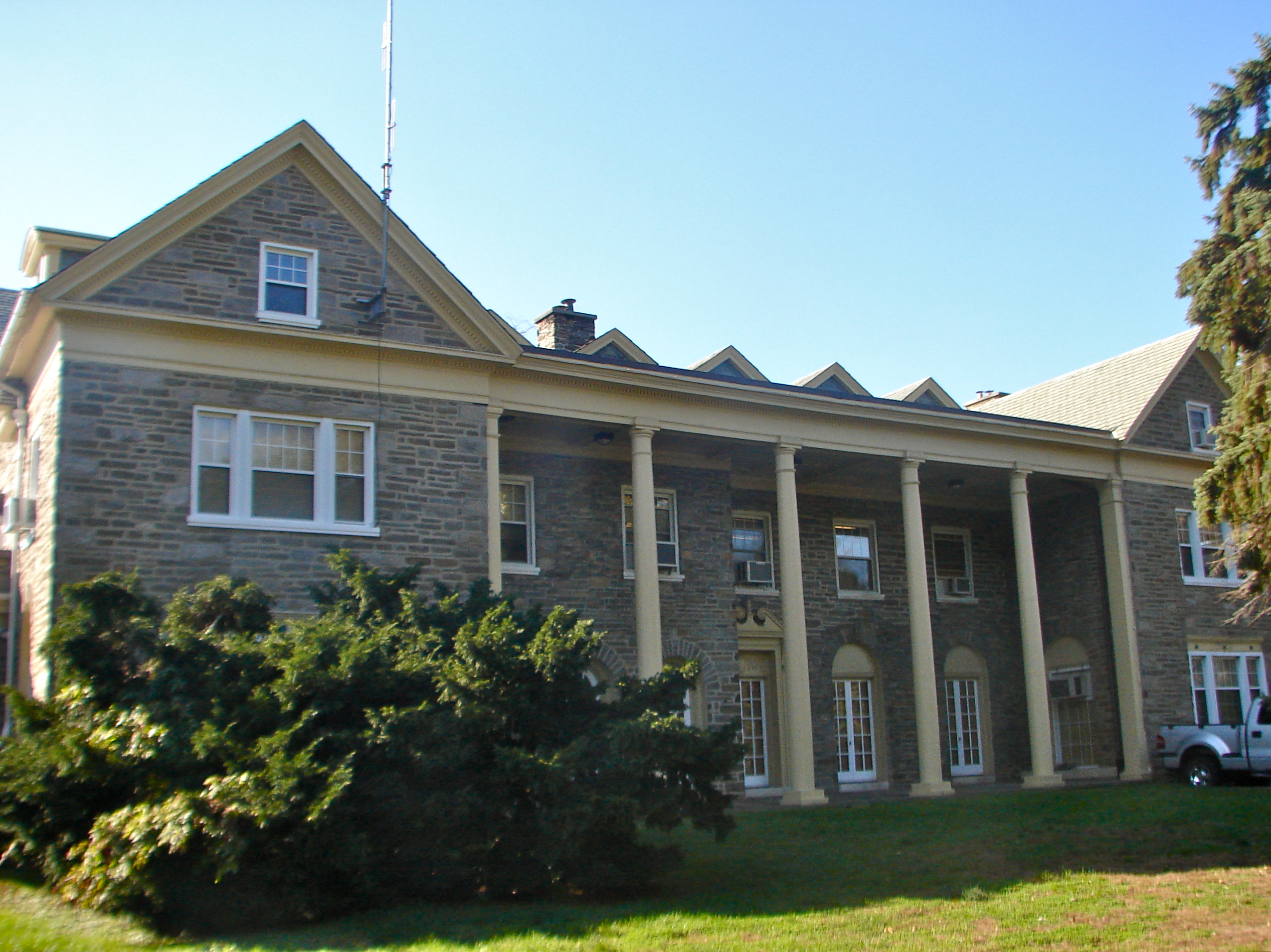 Henry West Breyer Sr. House on the NRHP since February 20, 2004. At 8230 Old York Road (across the road from FL Wright's Beth Sholom Synagogue), Elkins Park, Montgomery County, Pennsylvania. Now used as a municipal building, police HQ.